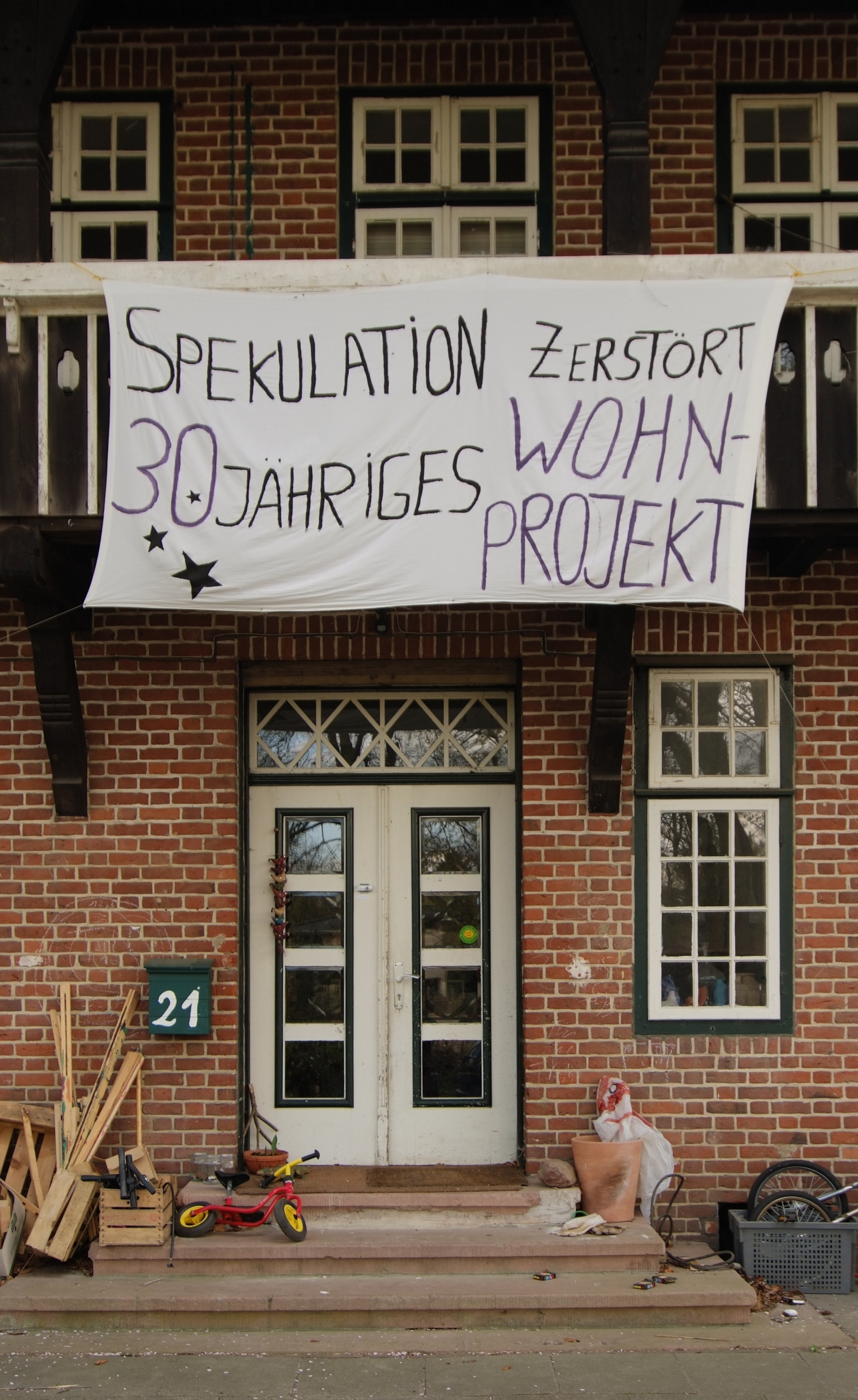 Cultural monument No. 911 in Hamburg, Germany